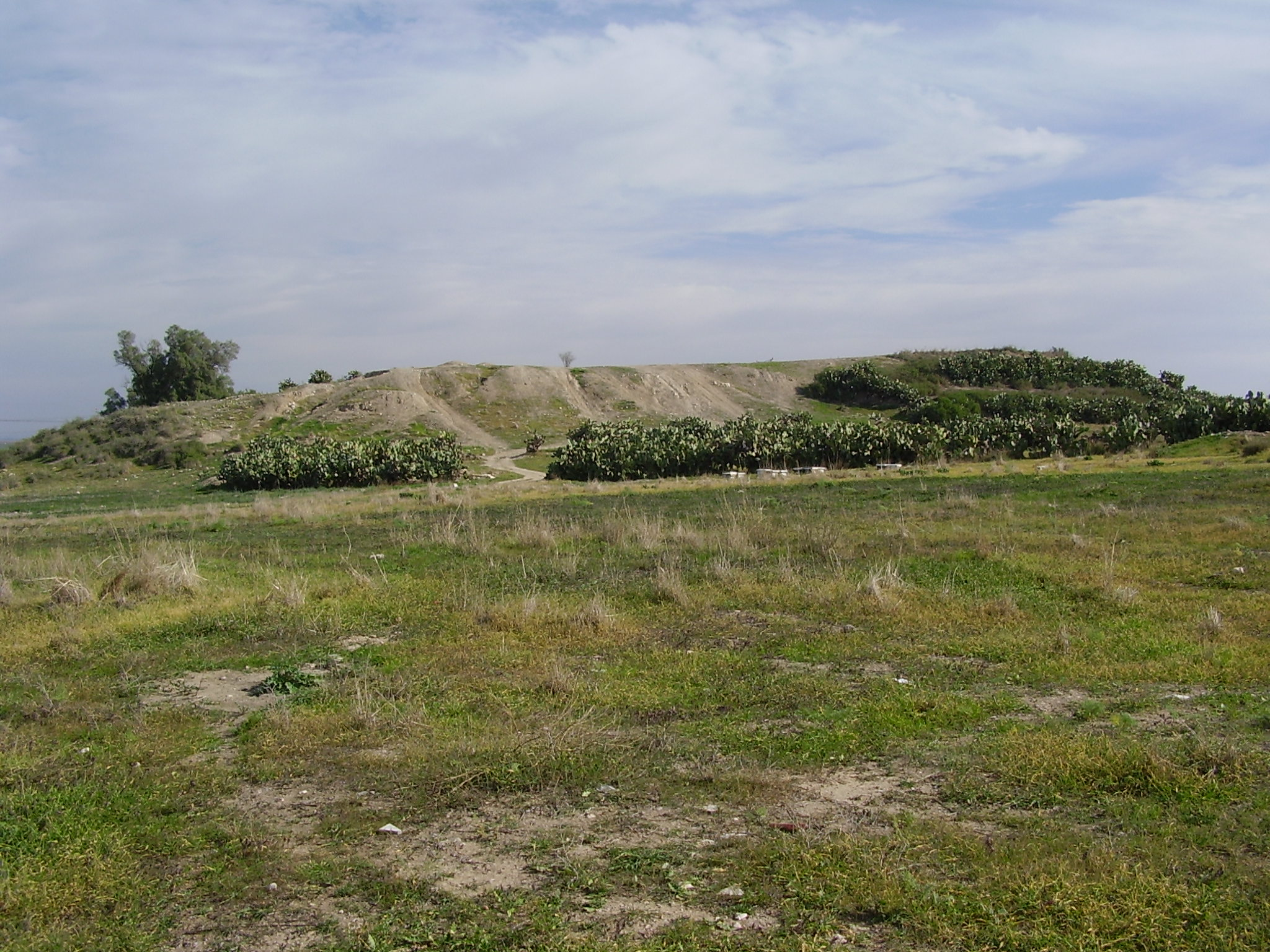 Ruin of "Tel Aerni Tel Jet", also known as Tel 'Erani, near Kiryat Gat